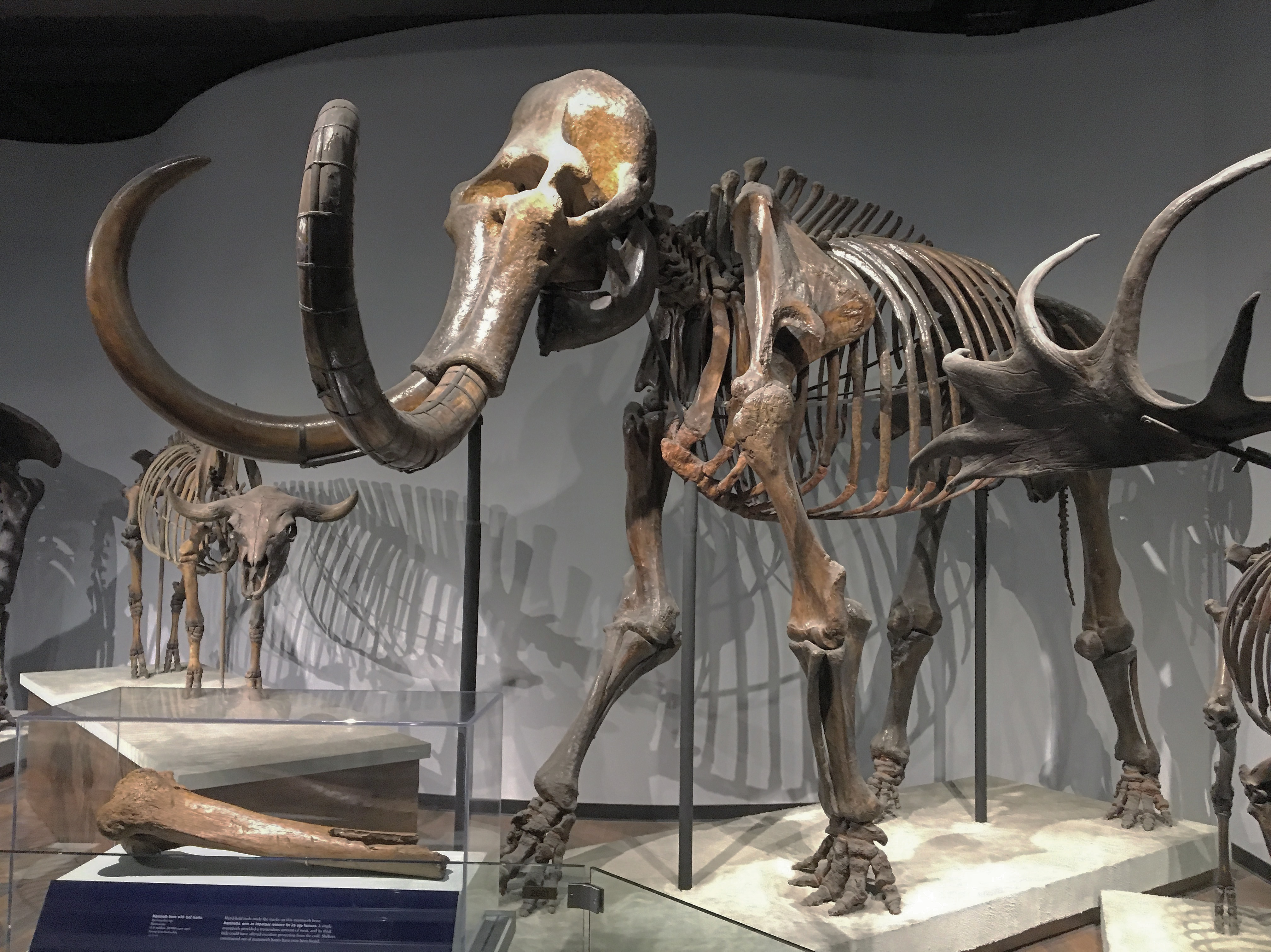 Wooly Mammoth fossil skeleton on display at the Field Museum of Natural History, Chicago, IL